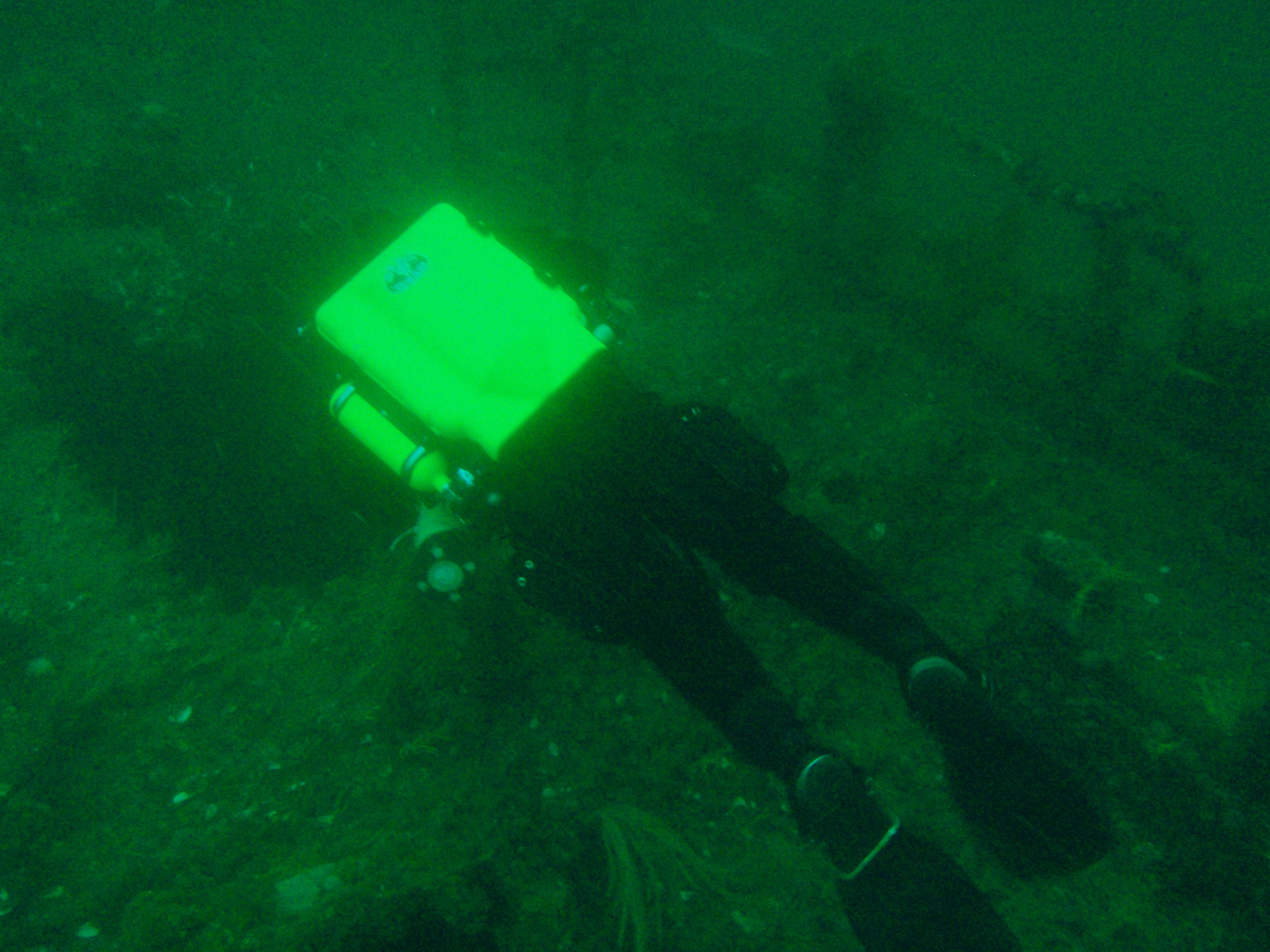 Diver using Inspiration rebreather at the wreck of the MV Orotava in Smitswinkel Bay off the Cape Peninsula